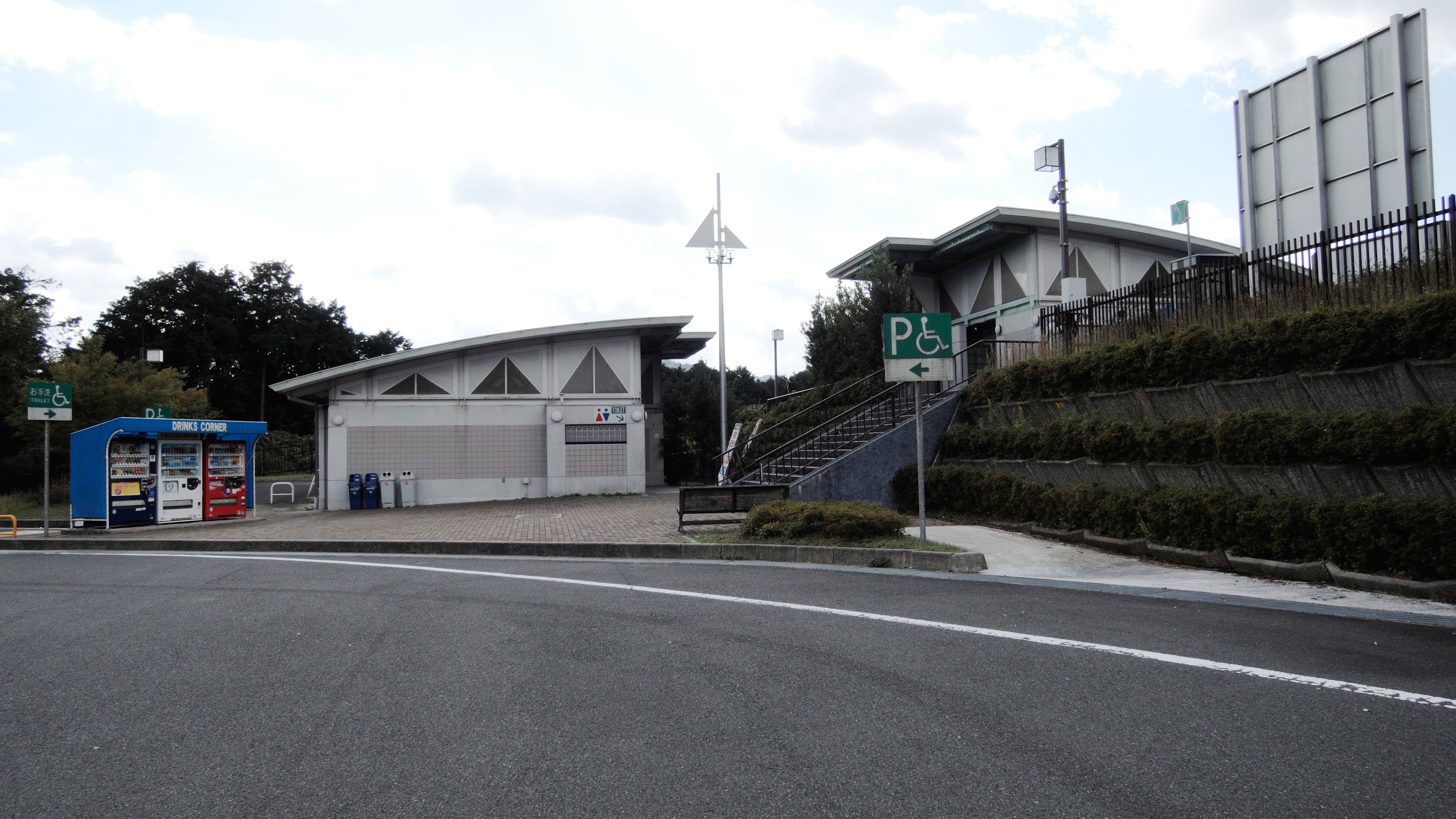 Yuragawa Parking Area, Kyoto prefecture, Japan